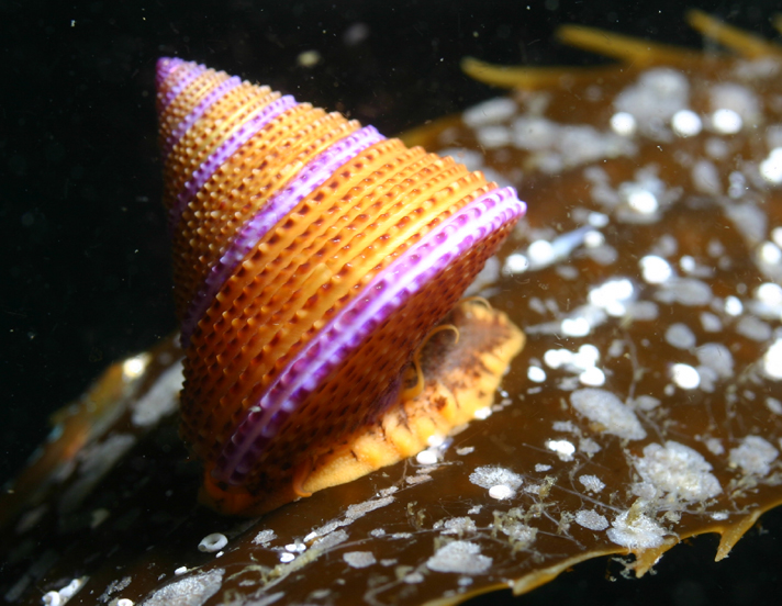 The jeweled top snail Calliostoma annulatum crawling on a blade of the giant kelp Macrocystis pyrifera.